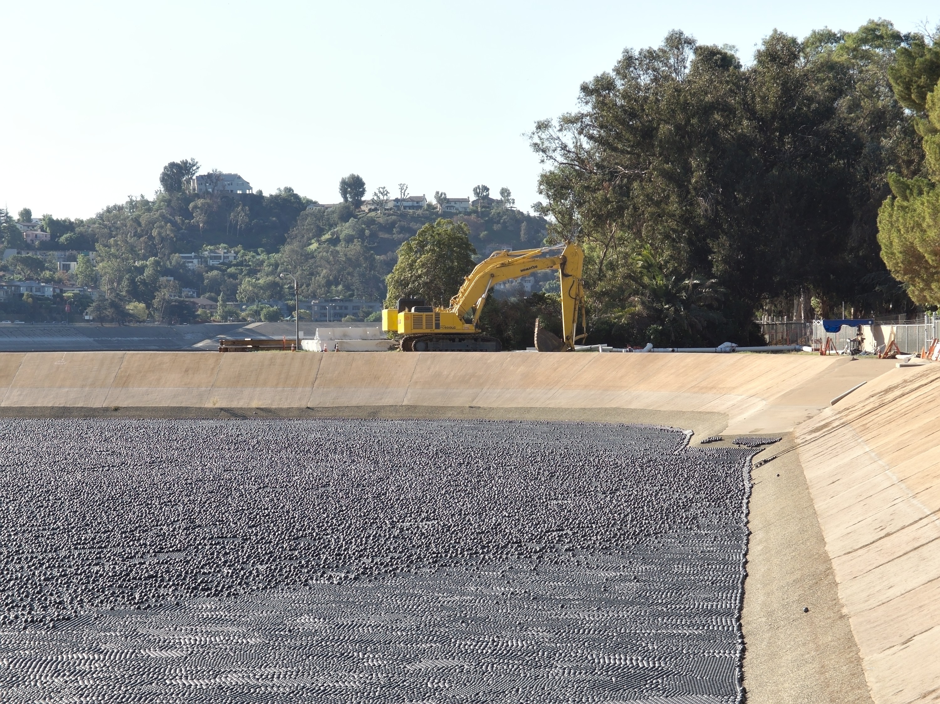 The Ivanhoe Reservoir portion of the Silver Lake Reservoir, after being filled with Shade balls, looking south from the northwest corner.